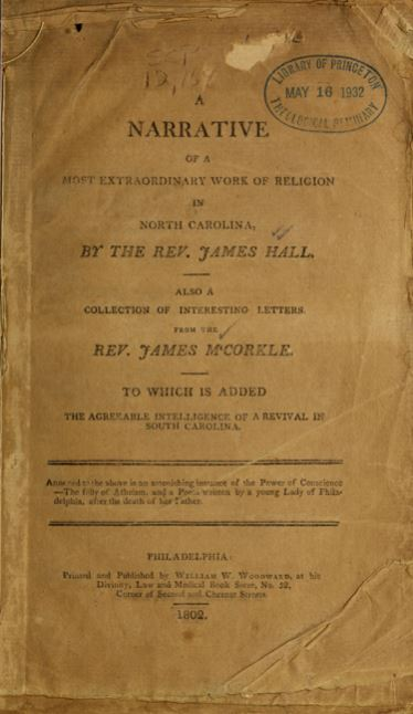 Cover of the book by Rev. James Hall written in 1802 and titled , "A narrative of a most extraordinary work of religion in North Carolina"